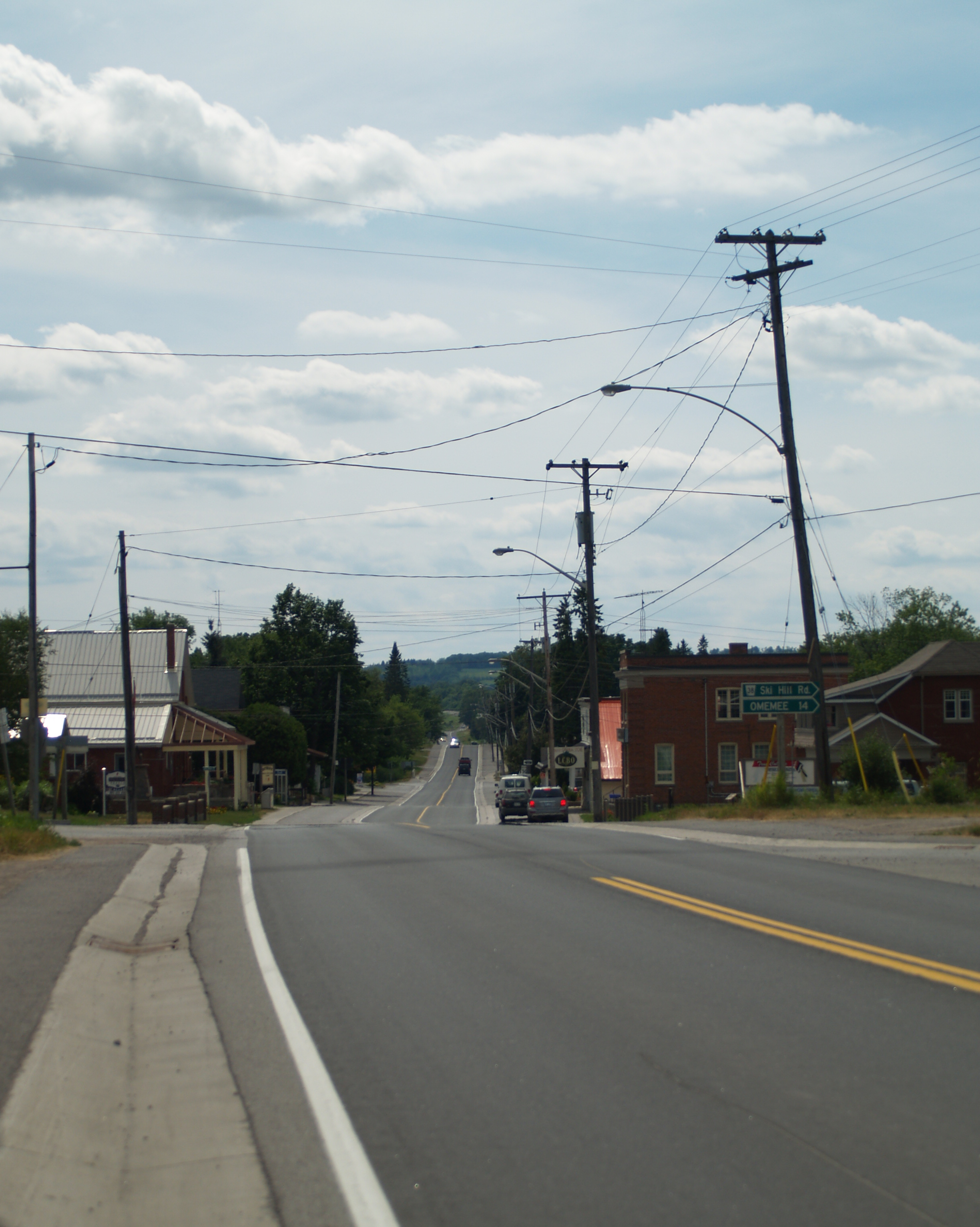 Highway 7A facing west through the village of Bethany, Ontario